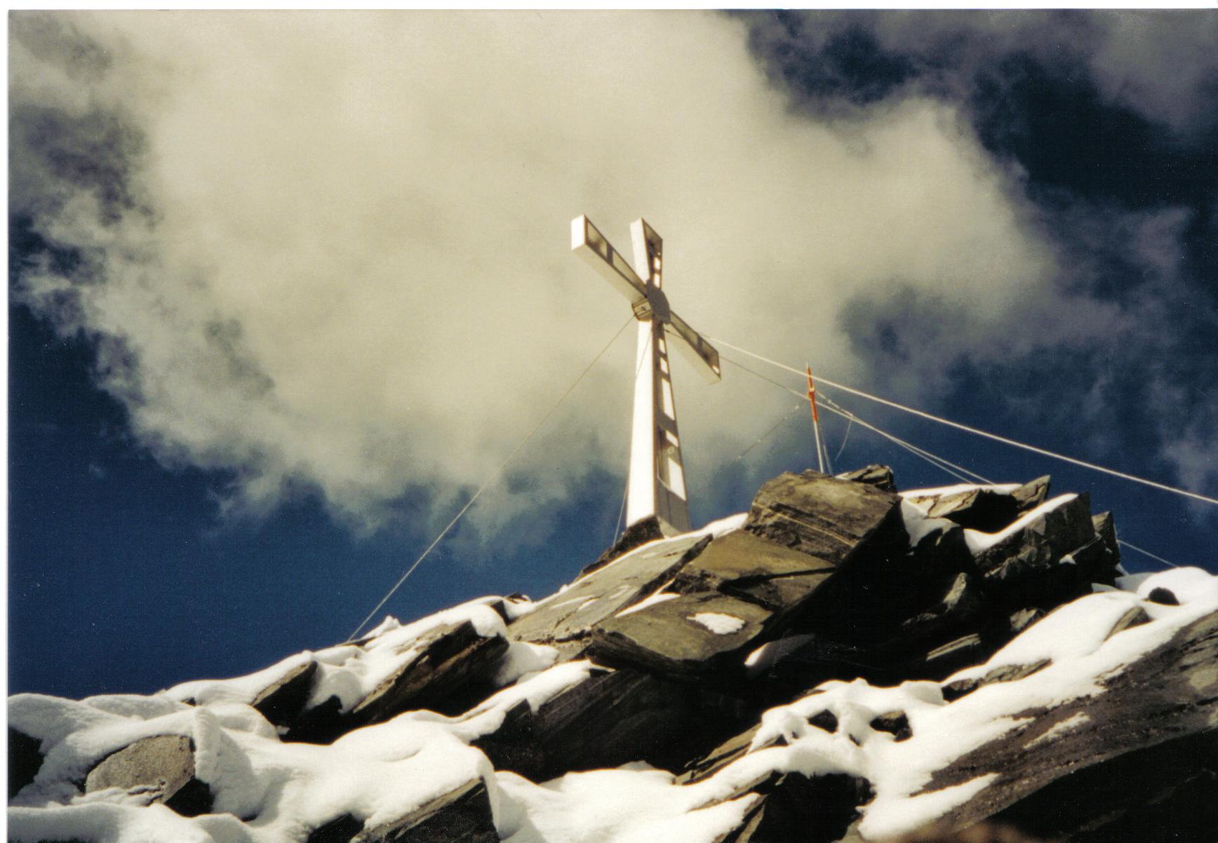 The summit of the Linker Fernerkogel in the Pitztal valley in the austrian Alps.